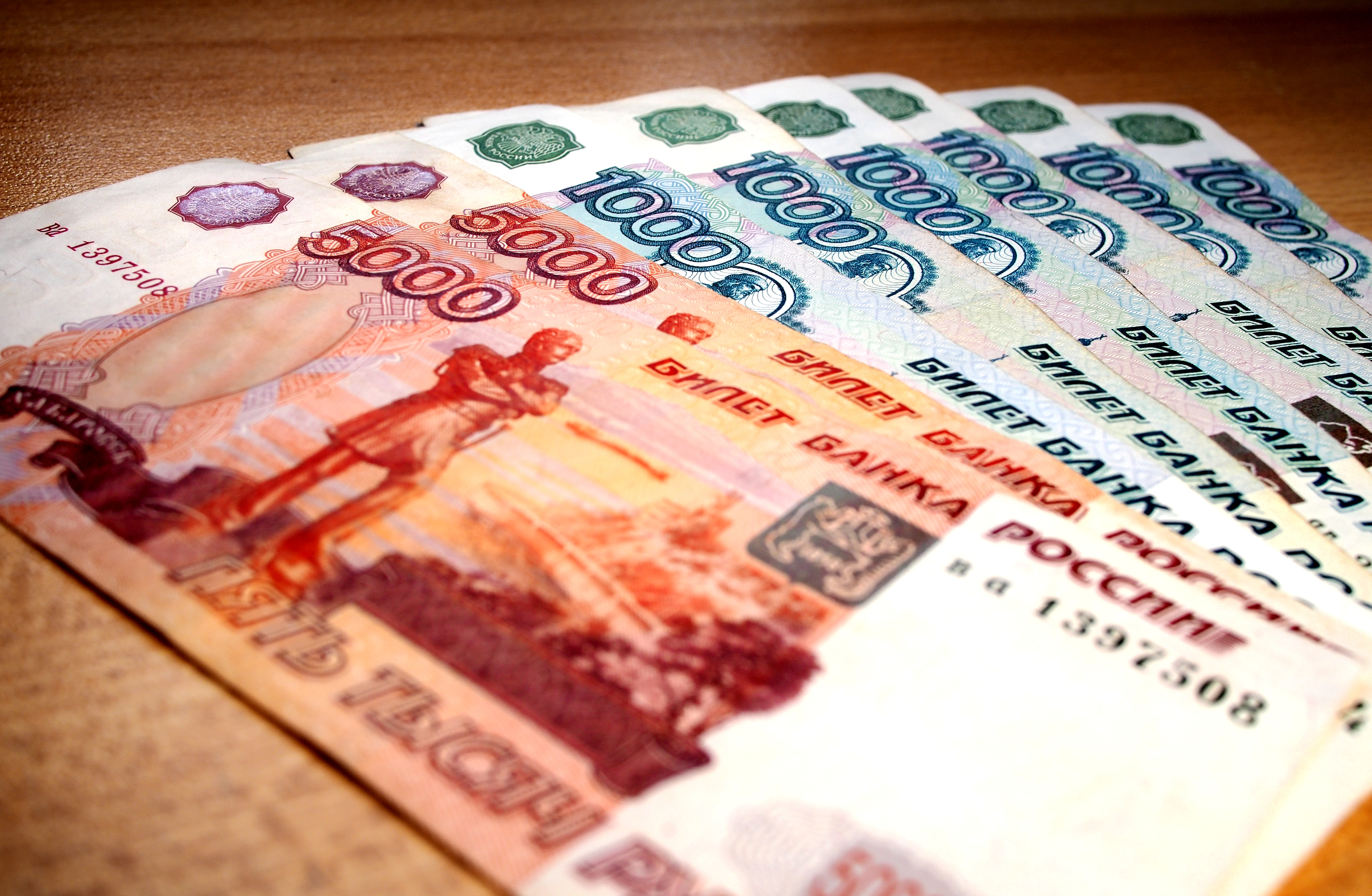 Russian rubles.